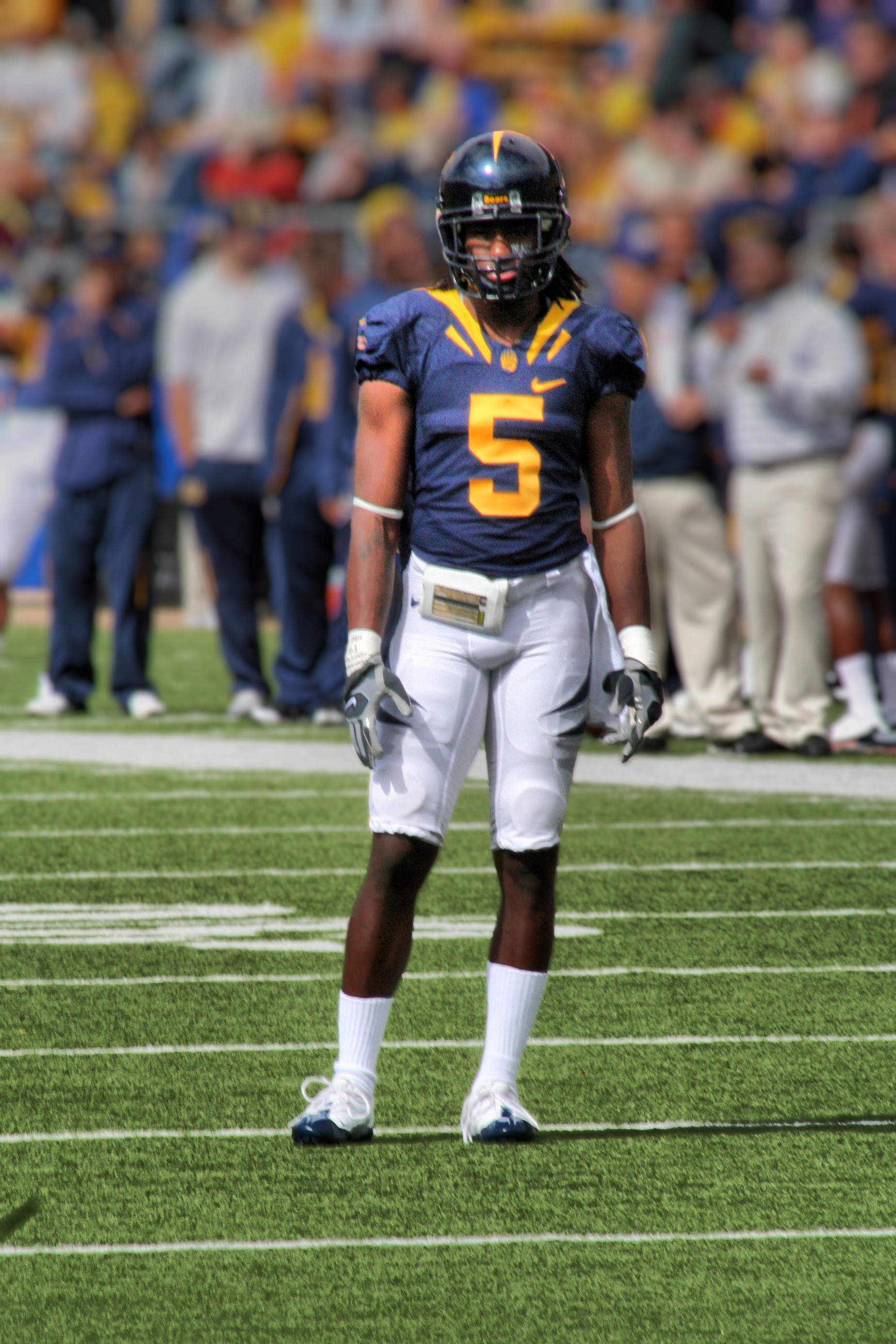 Syd'Quan Thompson, cornerback for the University of California